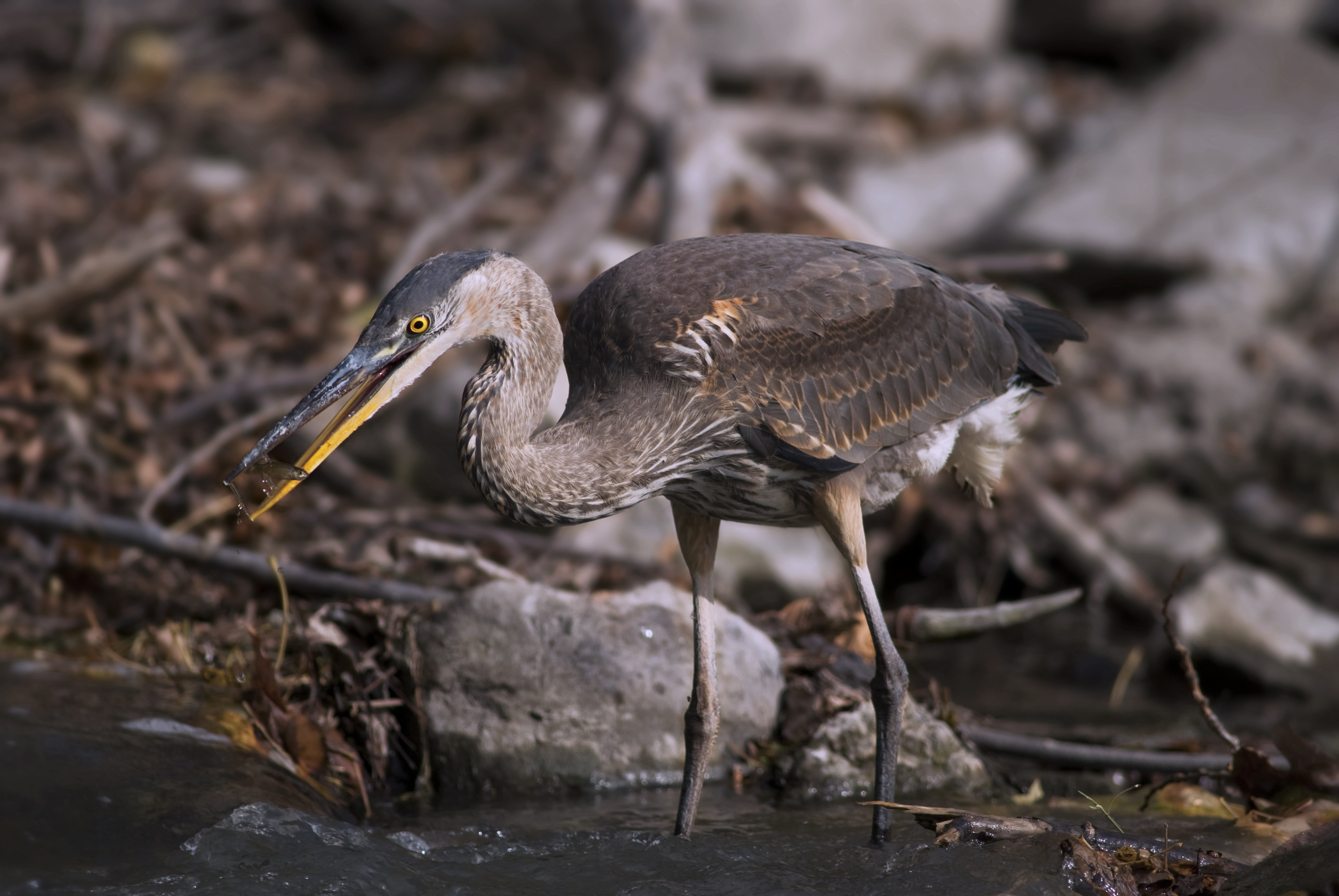 Great Blue Heron Ardea herodias, juvenile, fishing.